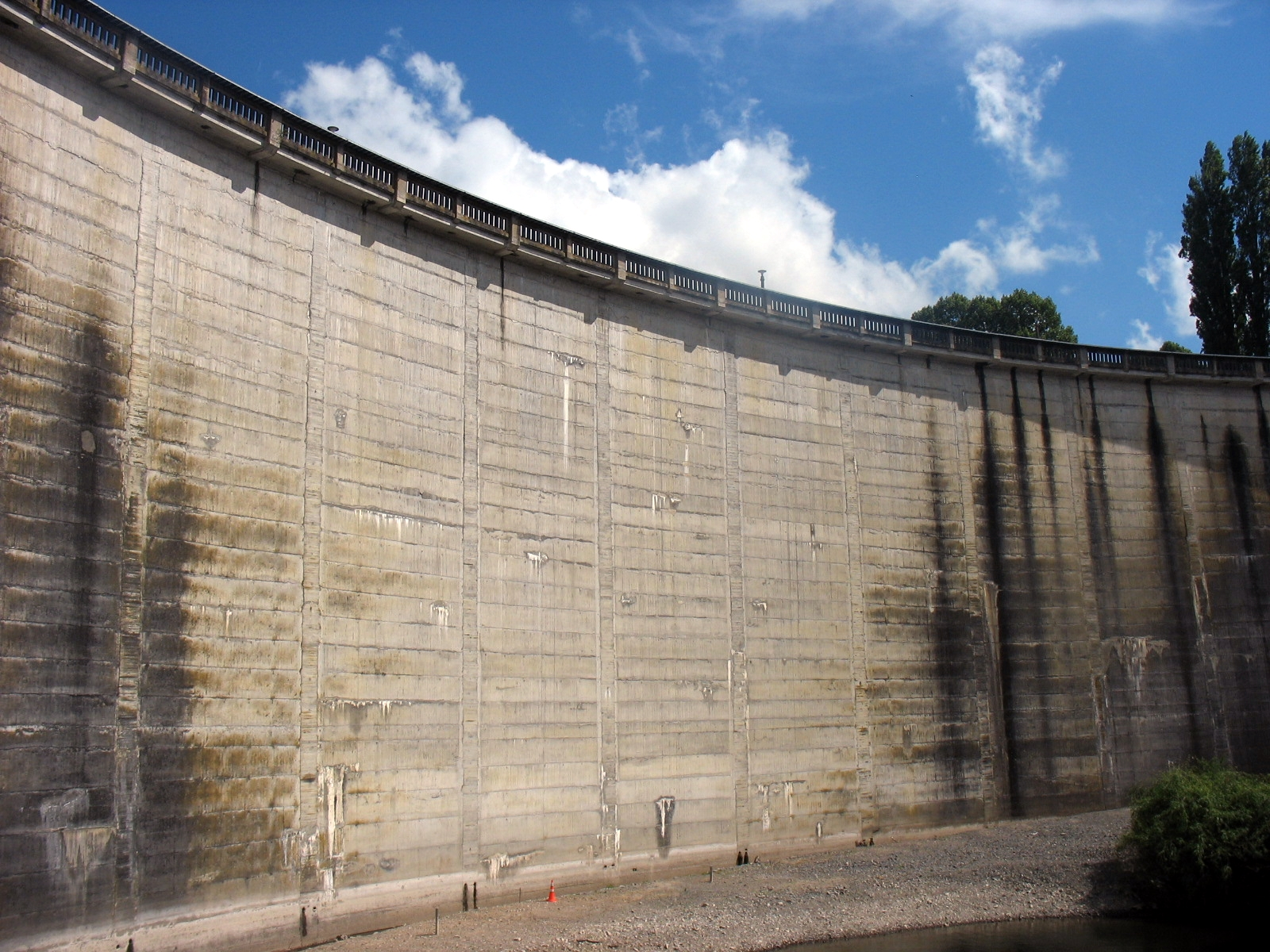 Karapiro Dam